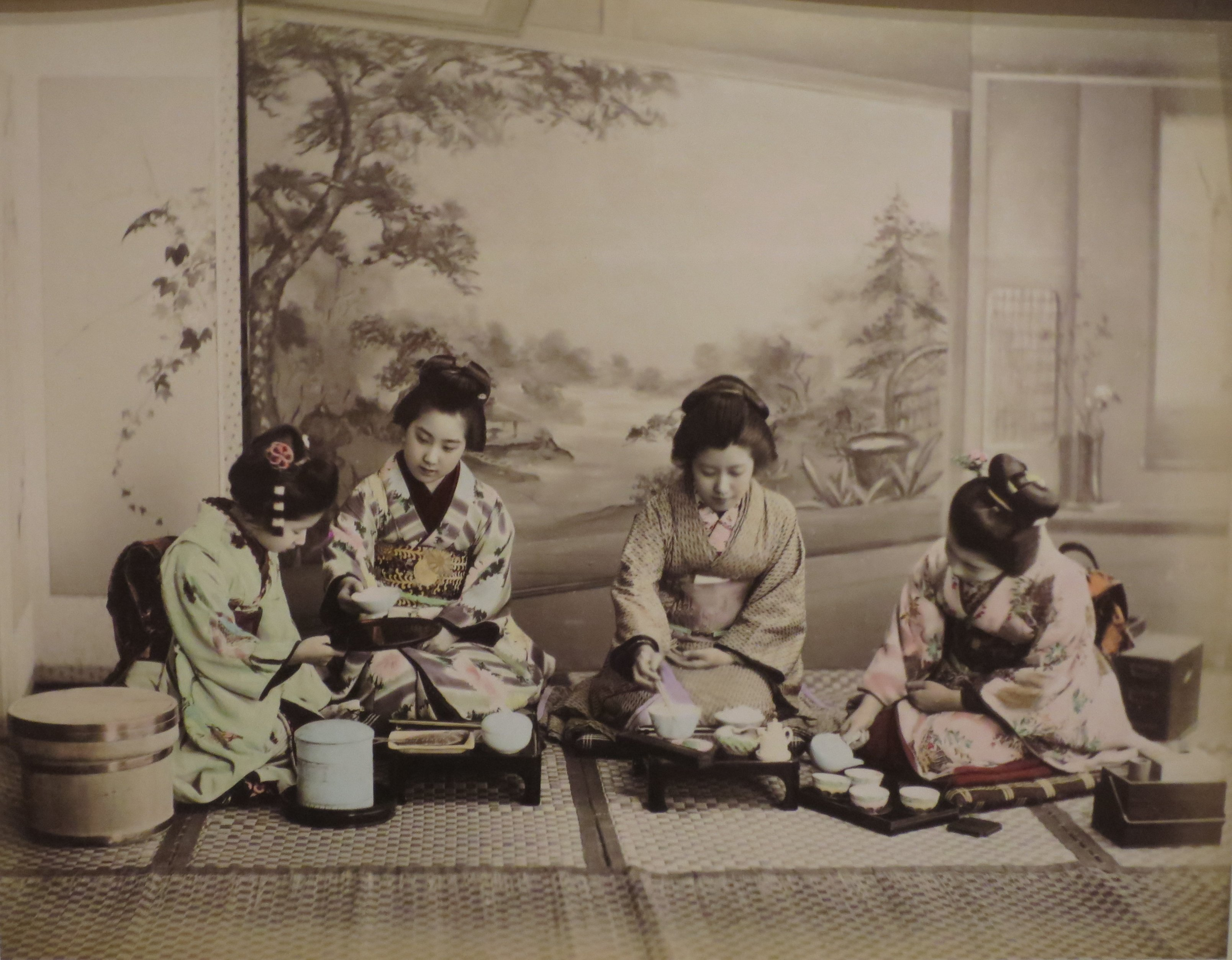 Four Women Having a Meal, Japan, Meiji period, 1880-1900, albumen print, Honolulu Museum of Art, accession 2016-45-18b